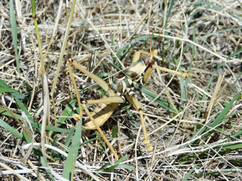 Unidentified insect (Ani, Turkey, 2011-09-02), probably Saga natoliae